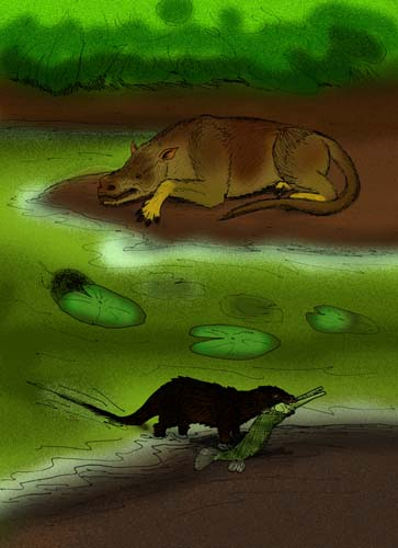 Comparison of of the Middle Eocene mesonychids Pachyaena (top), and Hapalodectes serus